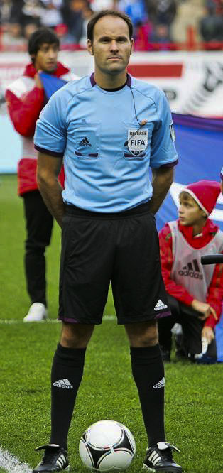 Antonio Mateu Lahoz refereeing Russia - Northern Ireland game in FIFA World Cup qualifier in 2012.